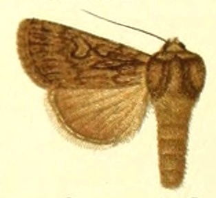 Image from Plate 7 of Die Gross-Schmetterlinge der Erde (The Macrolepidoptera of the World) Vol. 3